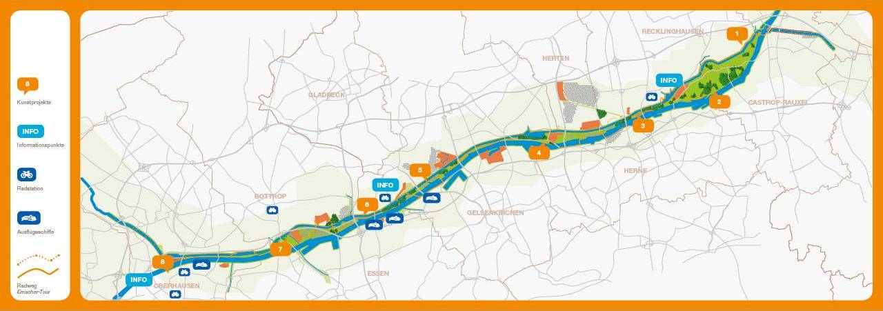 The picture shows a map indicating the places of the regional art project EMSCHERKUNST.2010. The project is part of the programm on the occasion RUHR.2010, European Capital of Culture 2010.